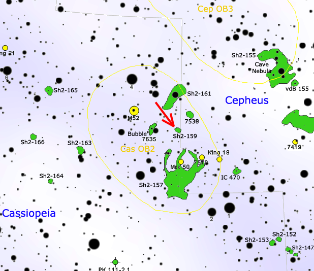 Map of Cassiopeia OB2 and evidenced Sh2-159